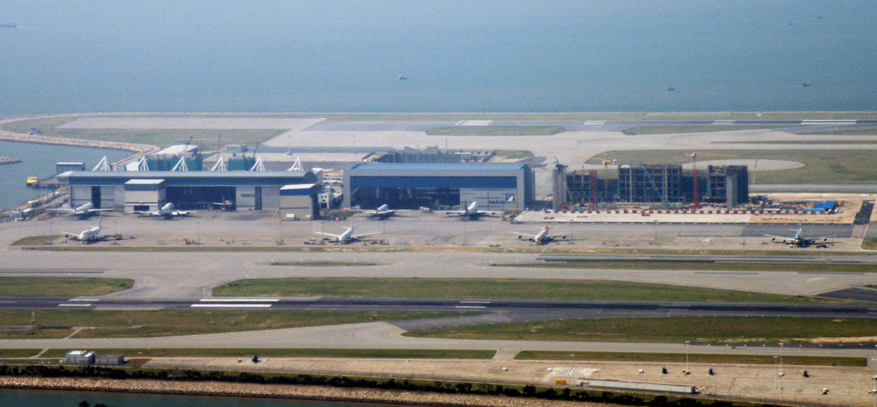 Hong Kong Aircraft Engineering Company (HAECO)